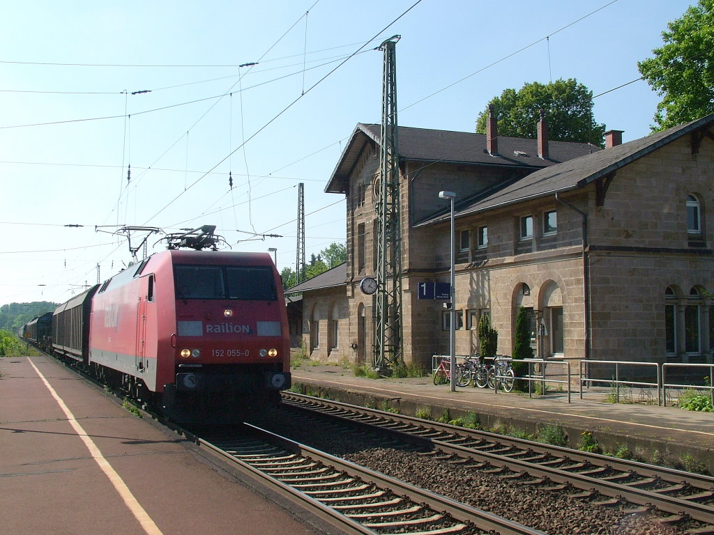 Train station Hasbergen (near Osnabrück) with a passing freight train